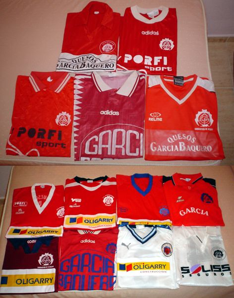 Set of jerseys used by CF Gimnástico de Alcázar in its recent years.